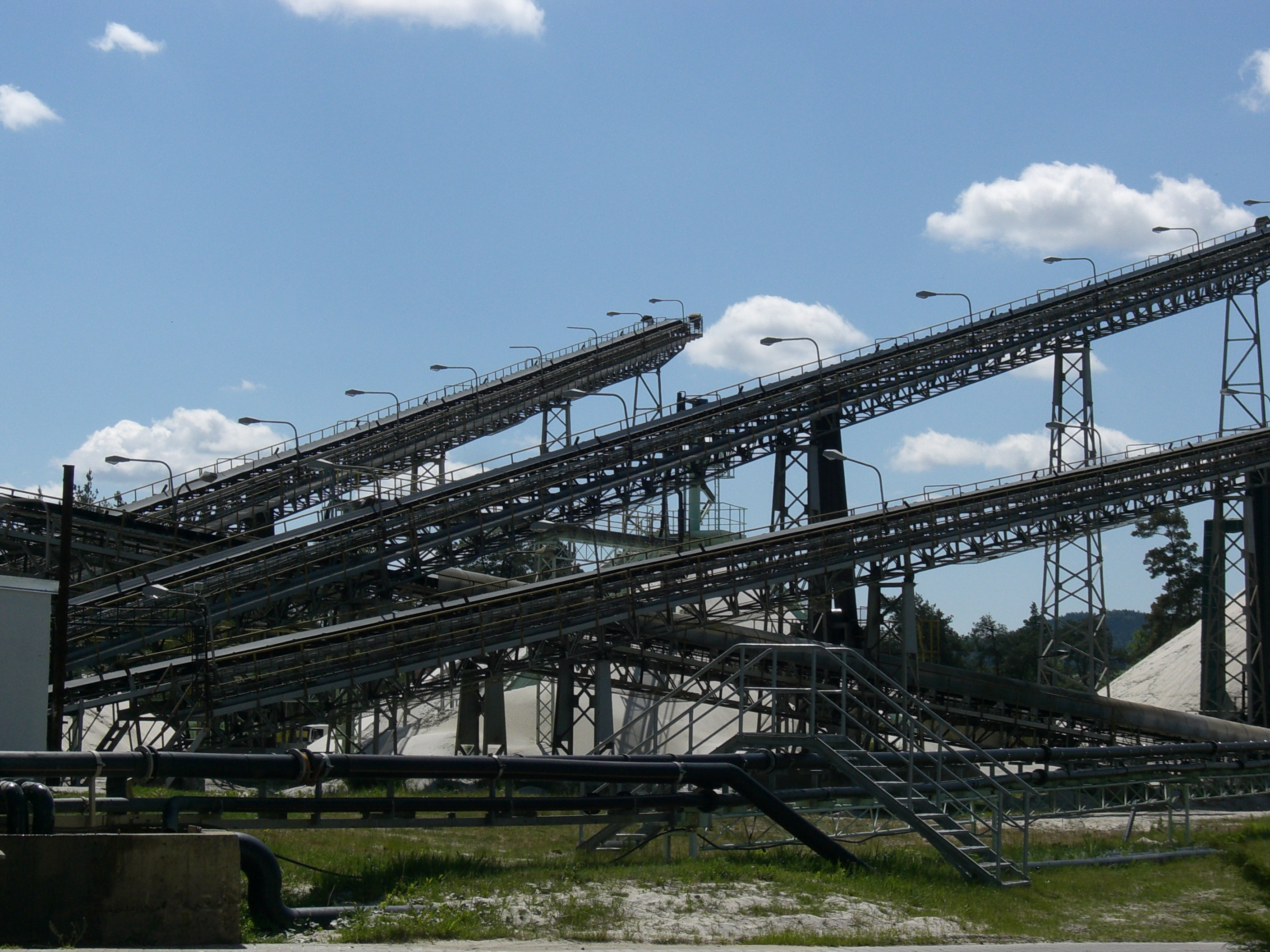 Sand processing mill near Provodín, Czech Republic. Belt conveyors feeding dry sand to heaps where it is stored before it is shipped to customers.